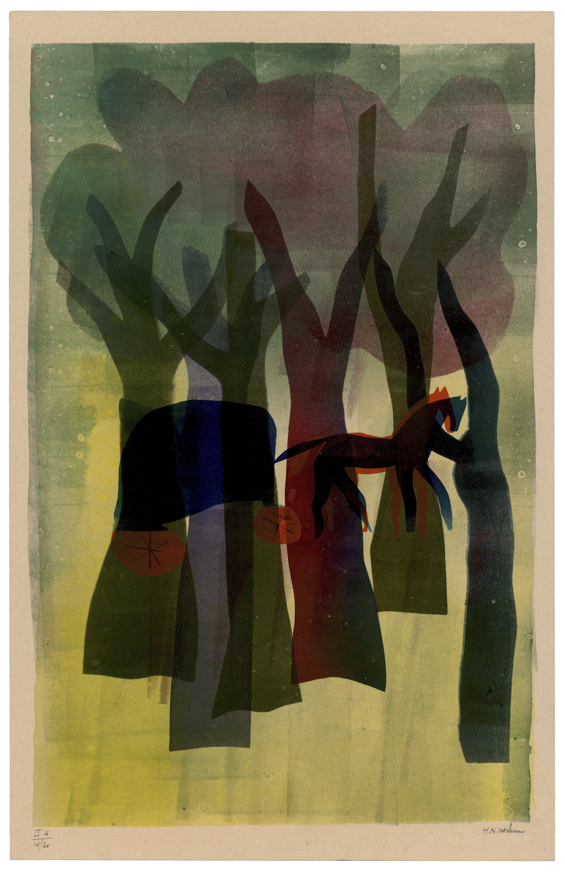 Suite II, print 4, of his series 'Chassidic Legends / Chassidische Legenden' by Hendrik Nicolaas Werkman (1882-1945)